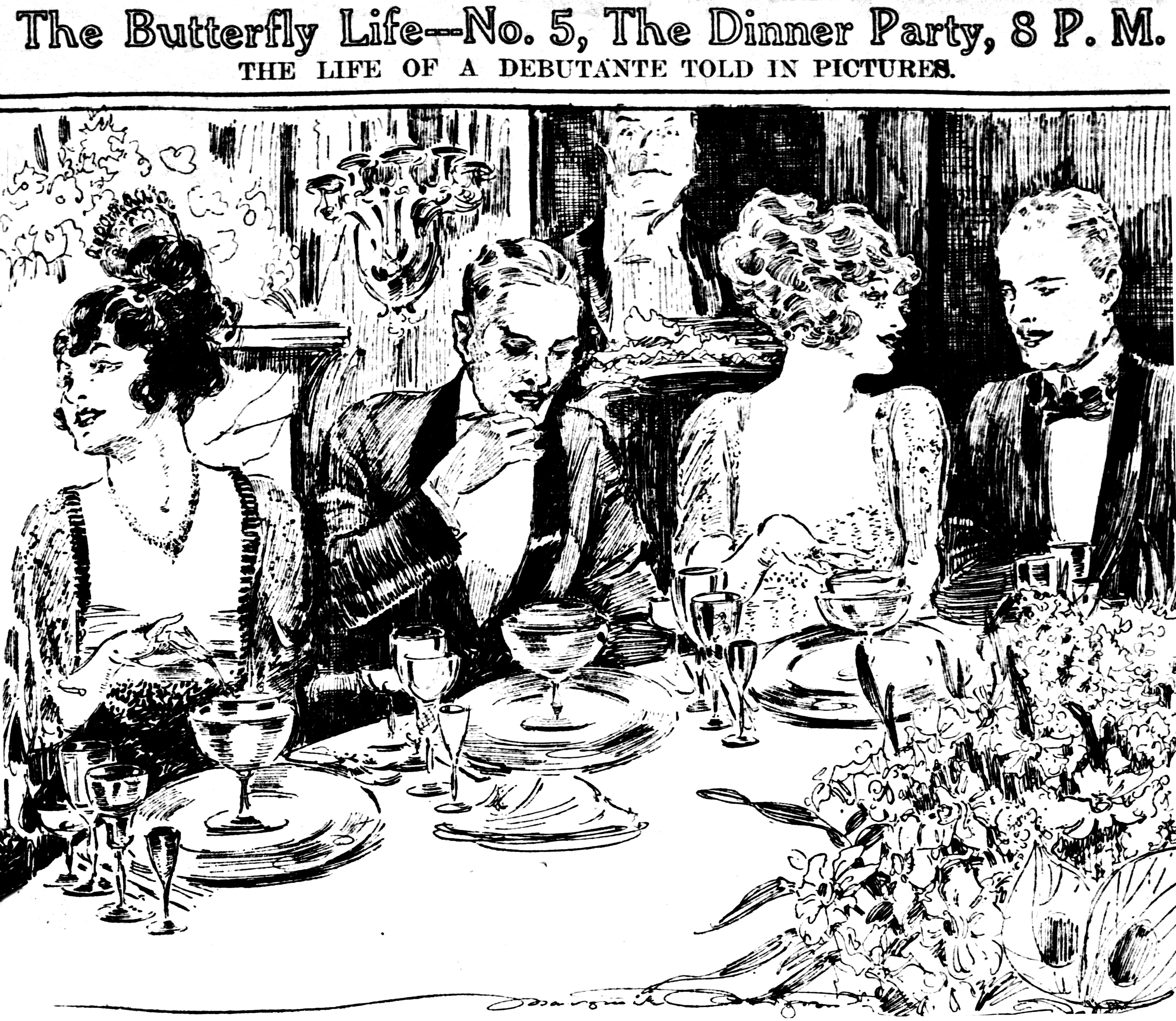 Imaginative sketch by Marguerite Martyn of the St. Louis Post-Dispatch shows a formal dinner party, with exact place settings. Guests are being served by a butler. Two men and two women are pictured.